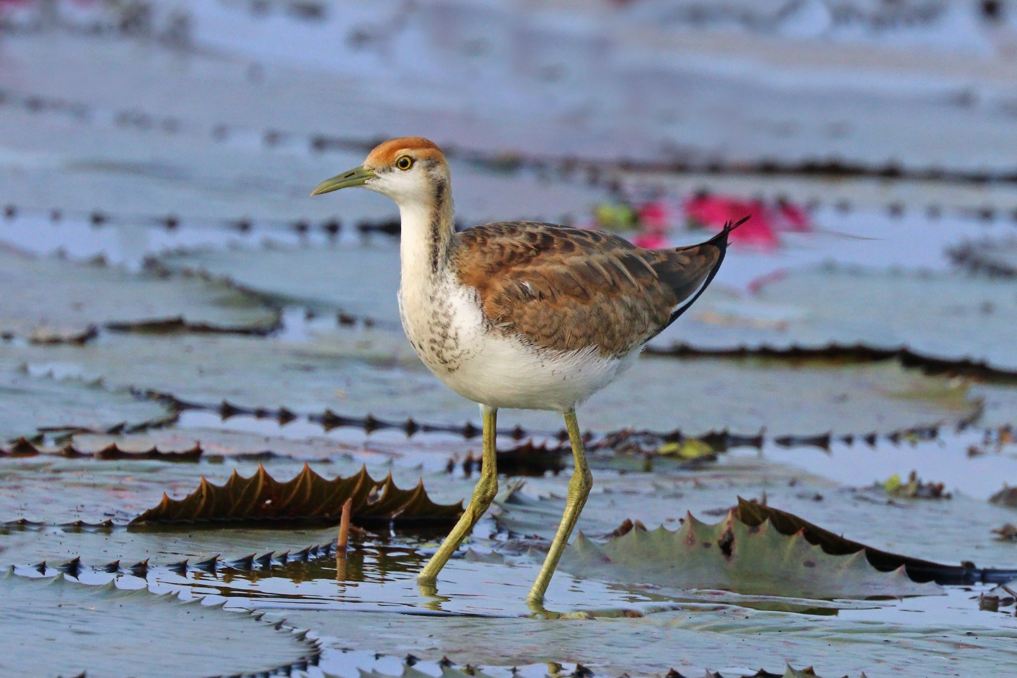 Pheasant-tailed jacana (Hydrophasianus chirurgus) juvenile, Vembanad Lake, Kerala, India